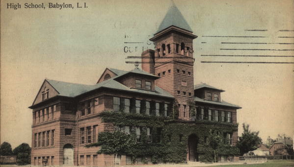 Original Babylon High School - 1908